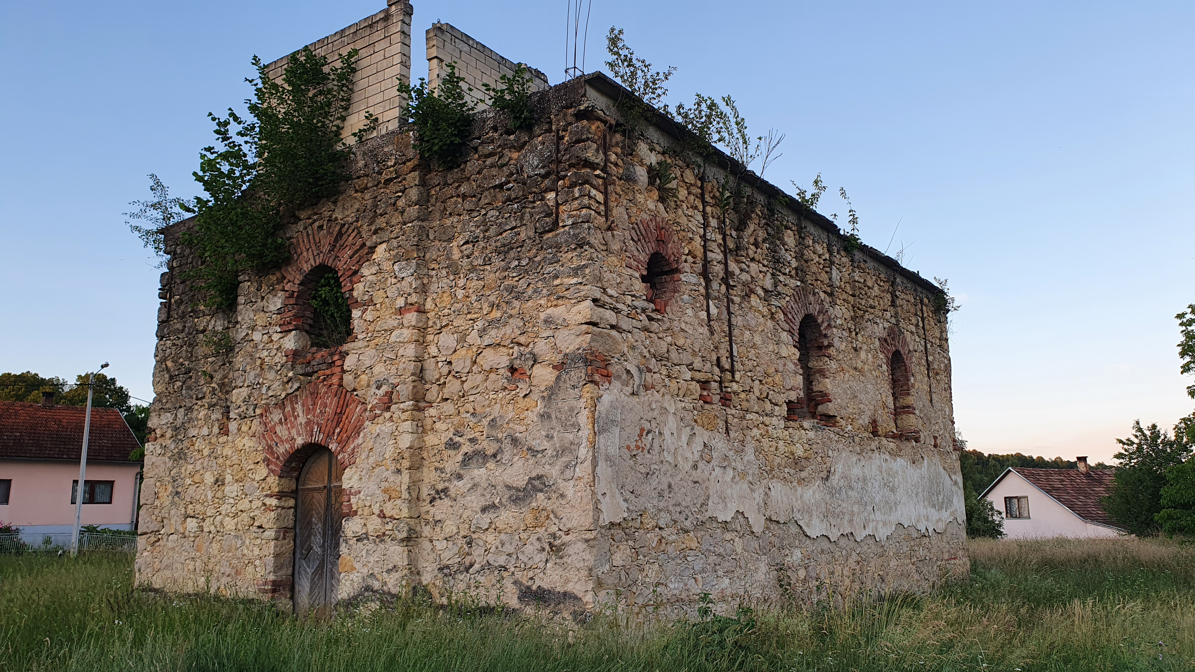 The southwest side of the Church of Saint Parascheva in Slabinja, Sisak-Moslavina County, Croatia